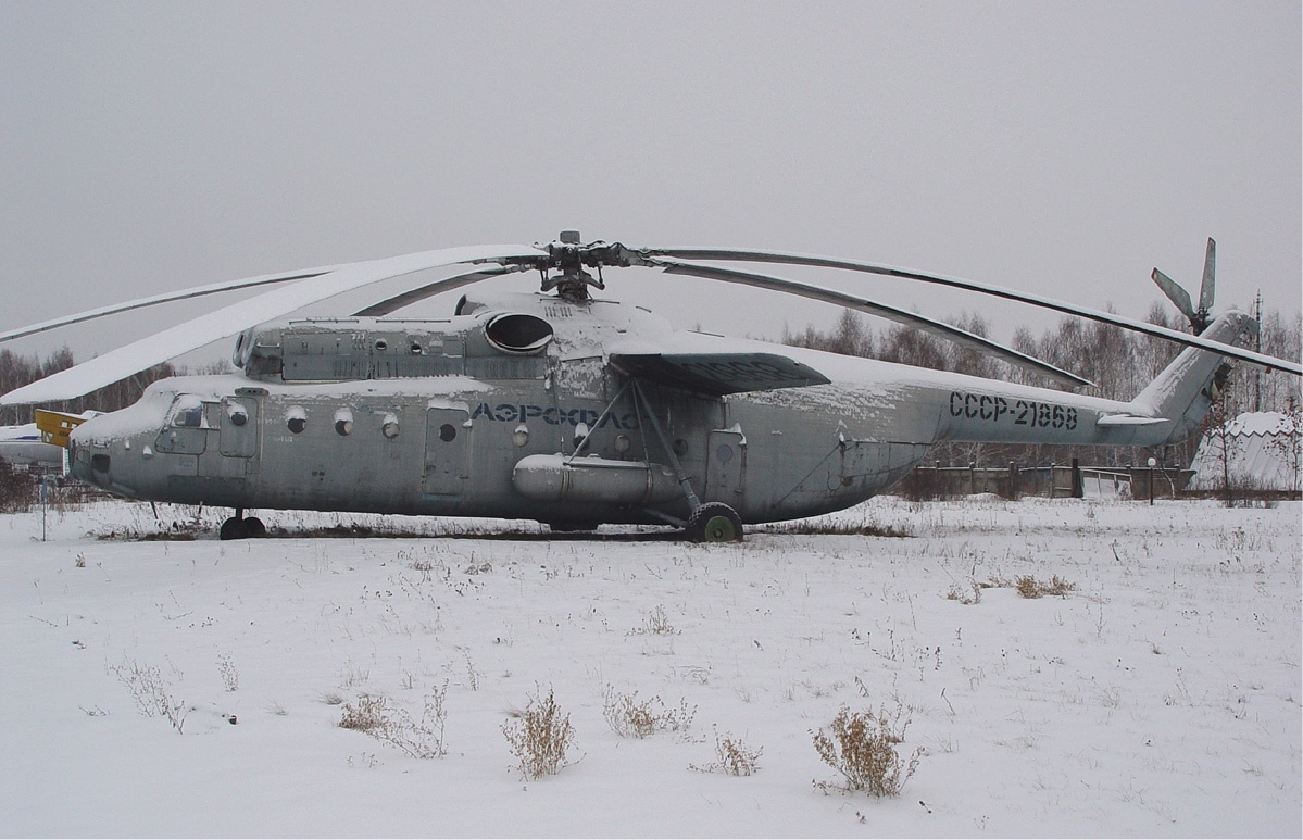 A Mil Mi-6 of Aeroflot